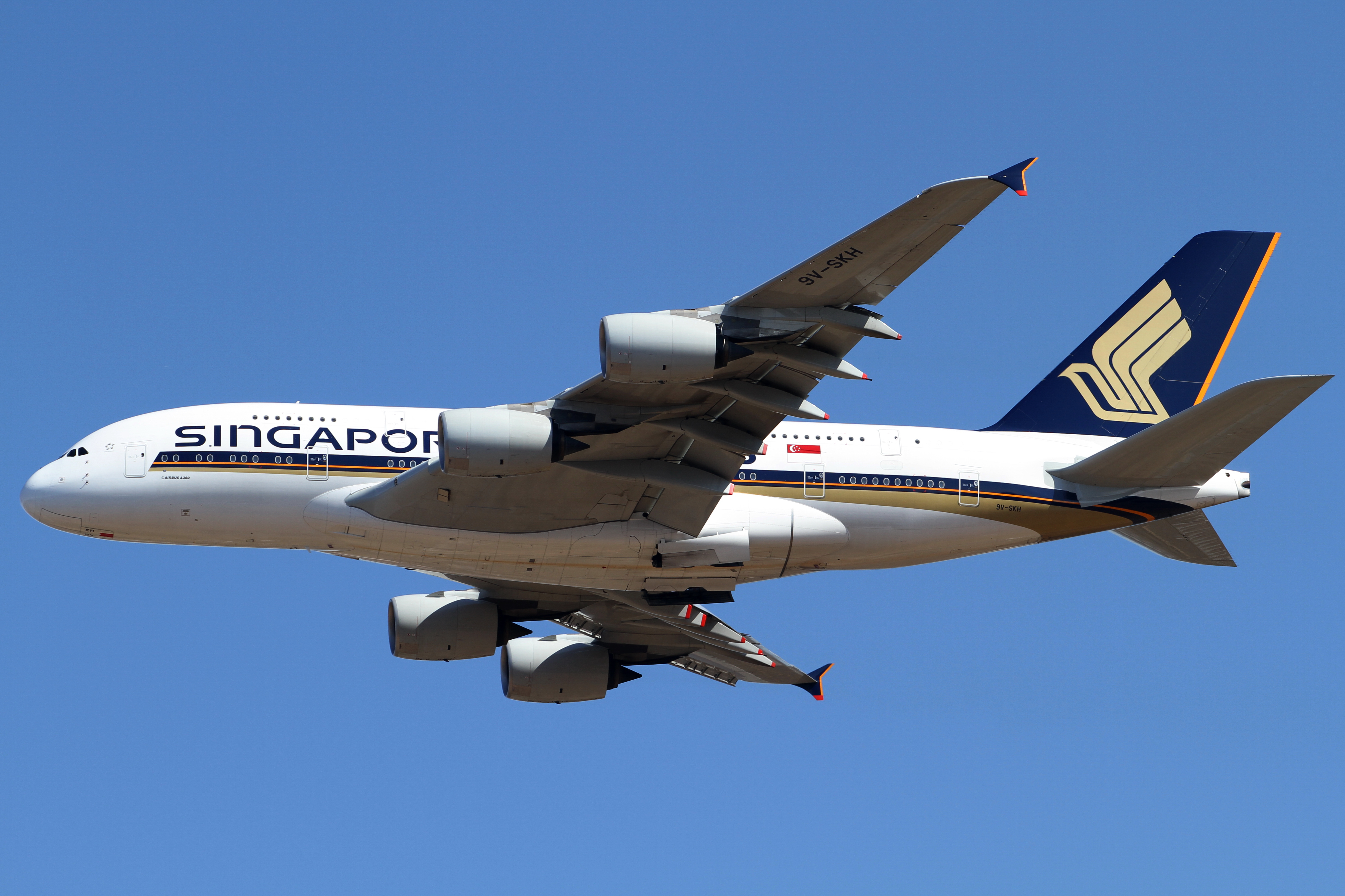 Narita International Airport, Airbus A380-841, c/n:021, Singapore Airlines